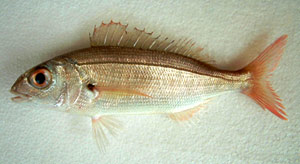 Picture of Pagellus acarne